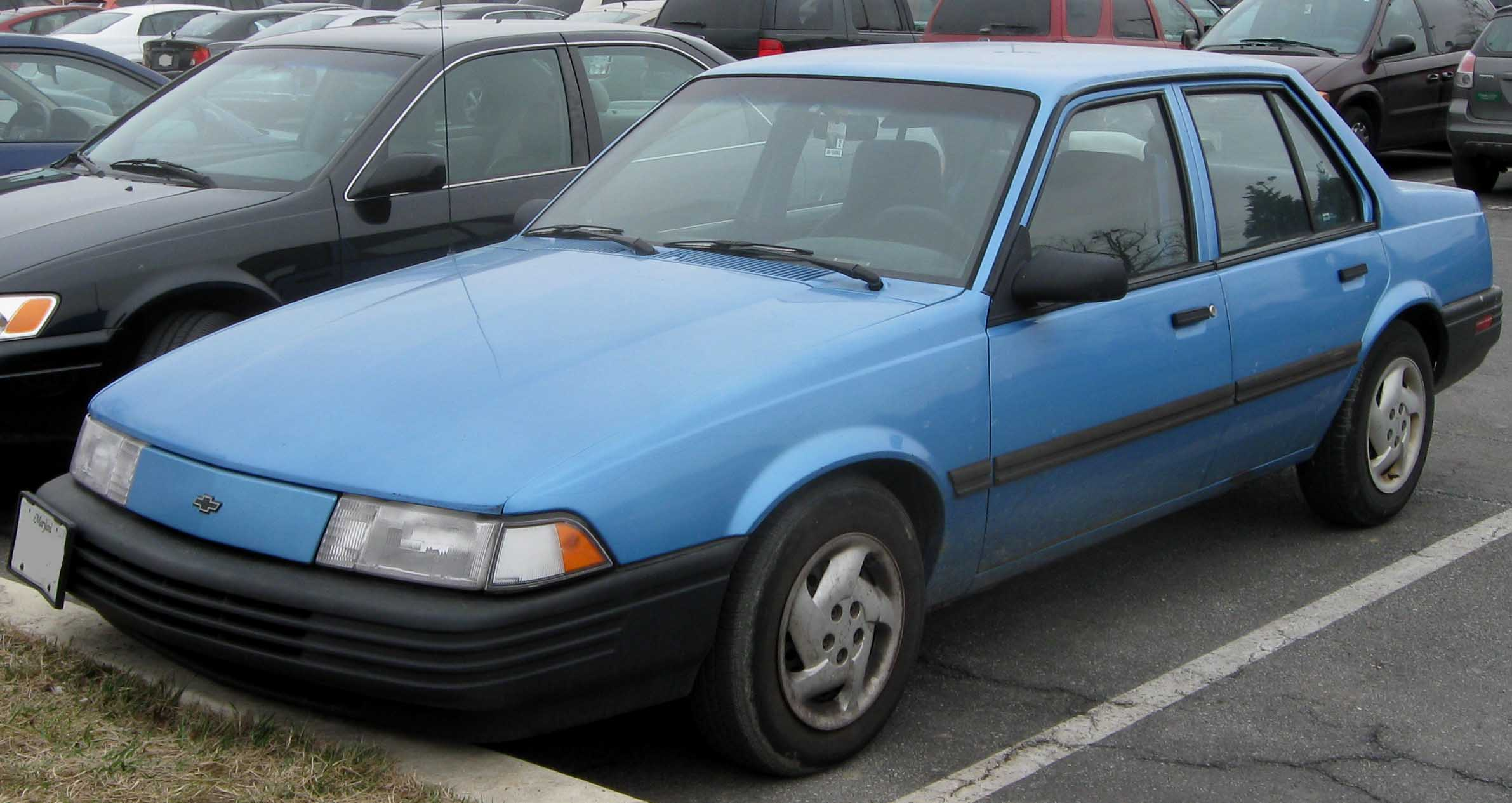 1991-1994 Chevrolet Cavalier photographed in College Park, Maryland, USA.